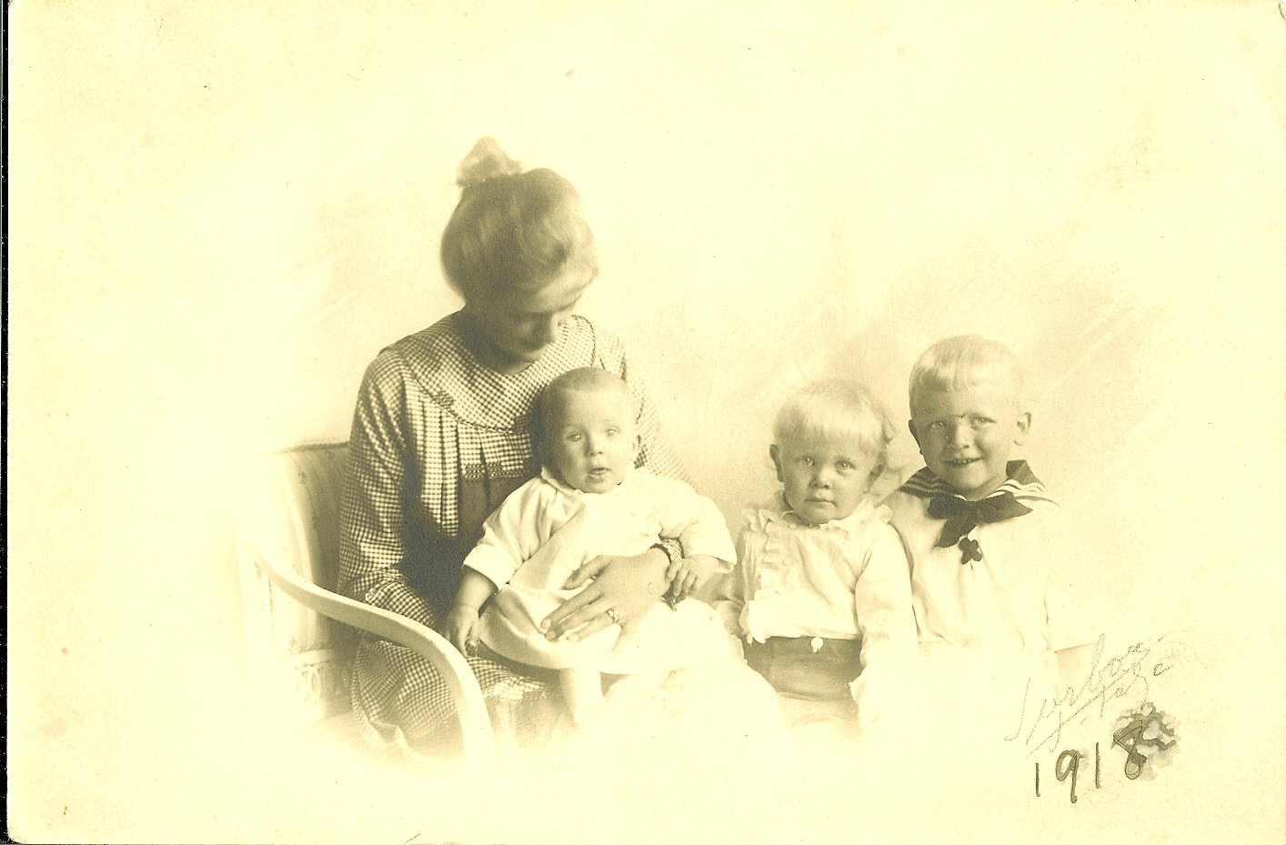 Ingrid Norling with children, 1918. Lars Norling, Göran Norling and Carl-Axel Norling.